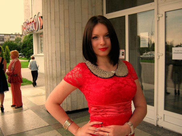 Model from Belarus